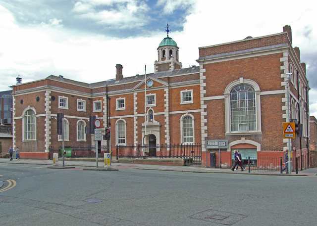 Bluecoat School Splendid Georgian building just north of the City Walls at the Northgate. Now part of the University of Chester.